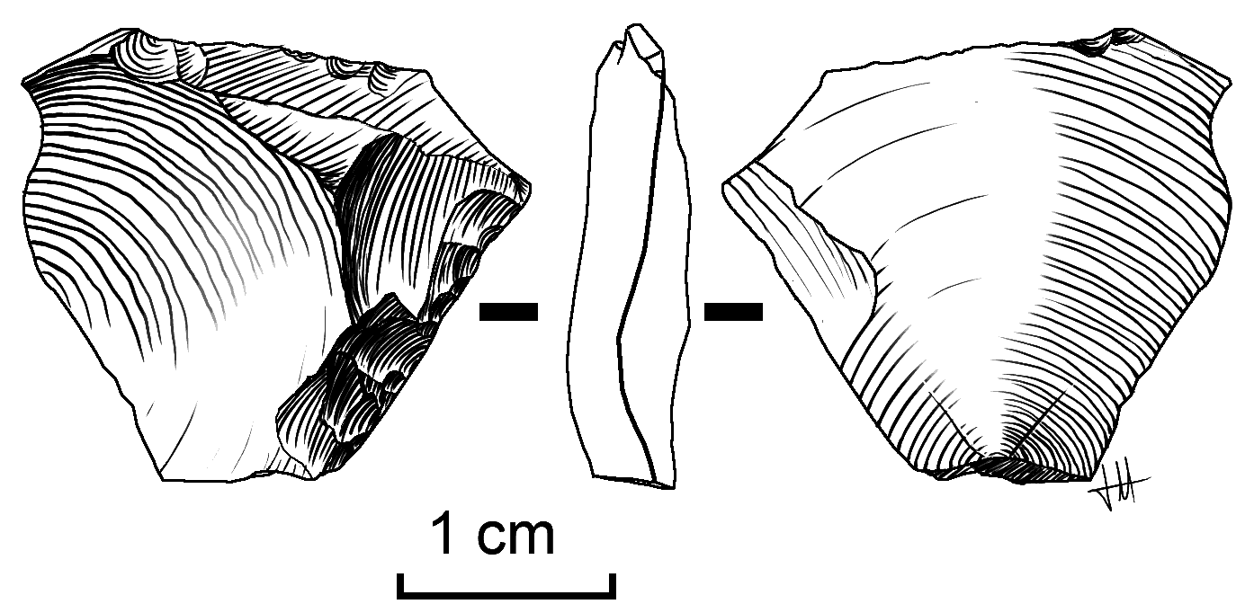 Common lithic flake on flint knapped by a craftsmen of Cantalejo (Segovia, Spain)